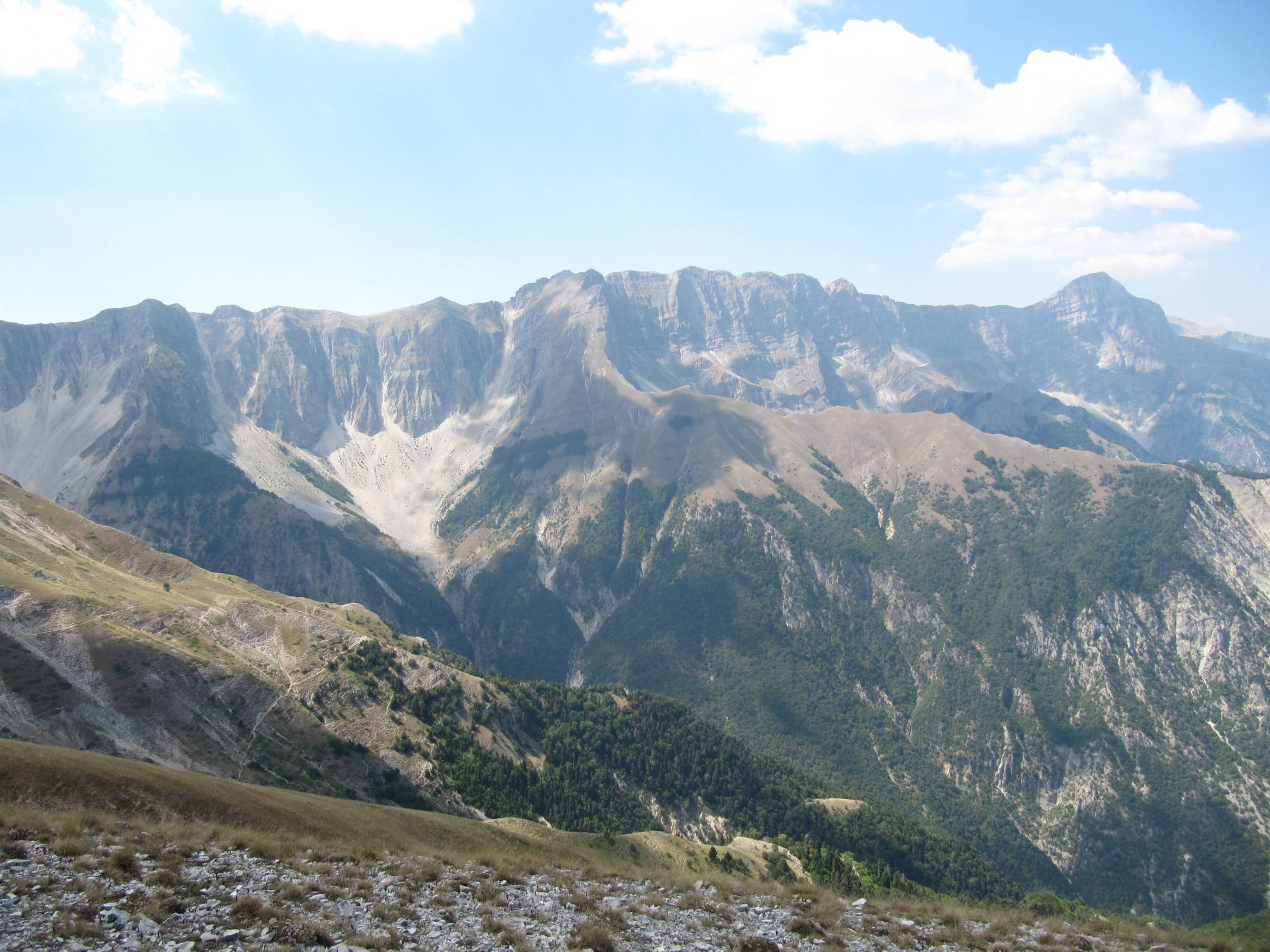 A view of Nemerçkë mountain from the south